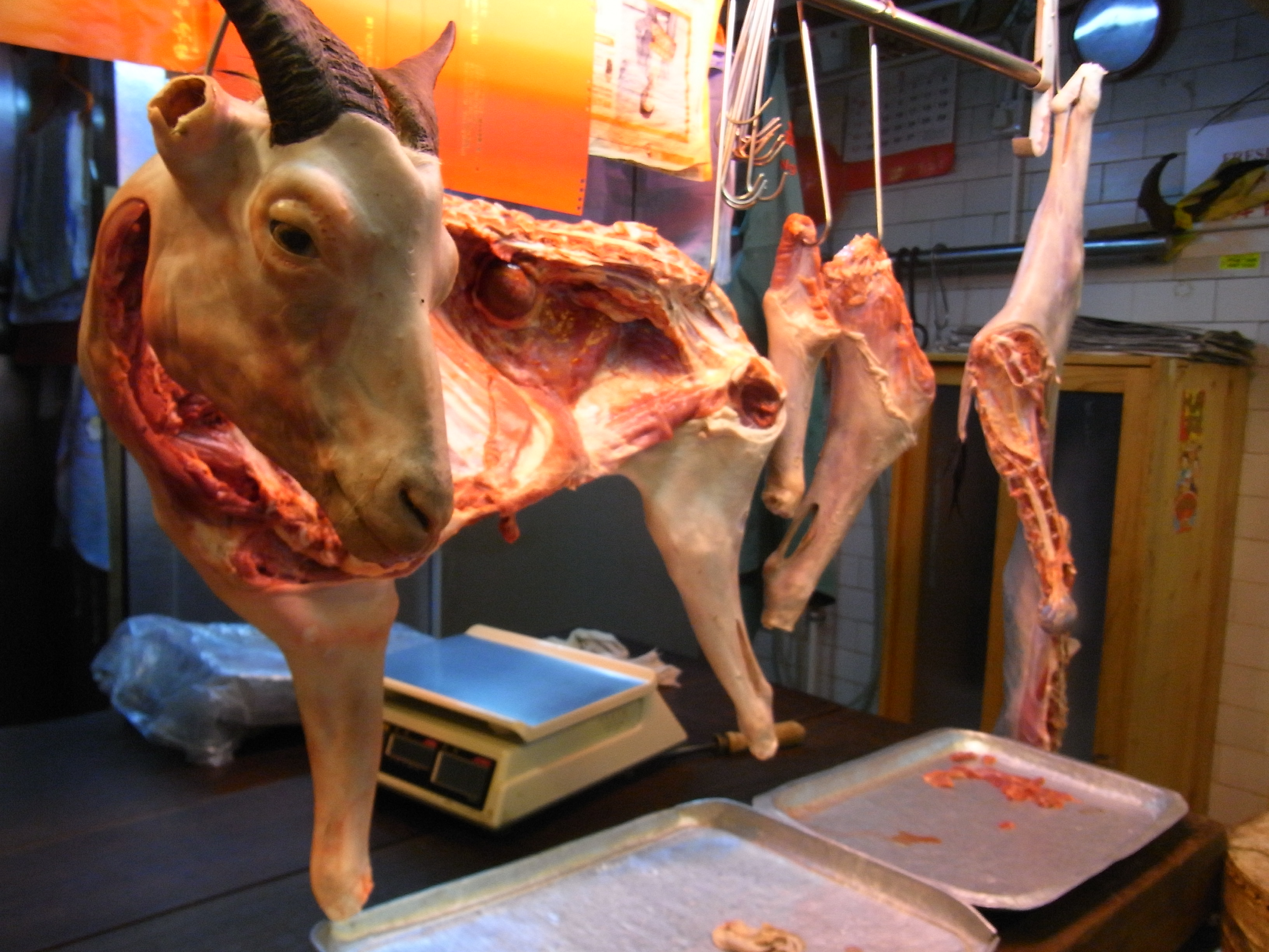 Sheung Wan Market, Hong Kong